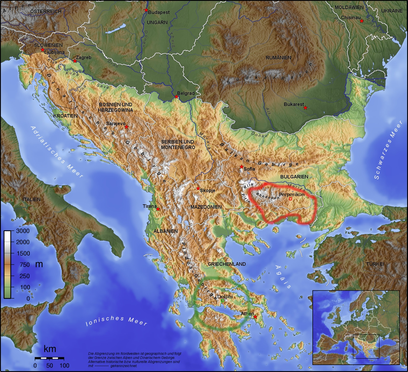 location of Perperikon and Delphi on the balcan peninsula